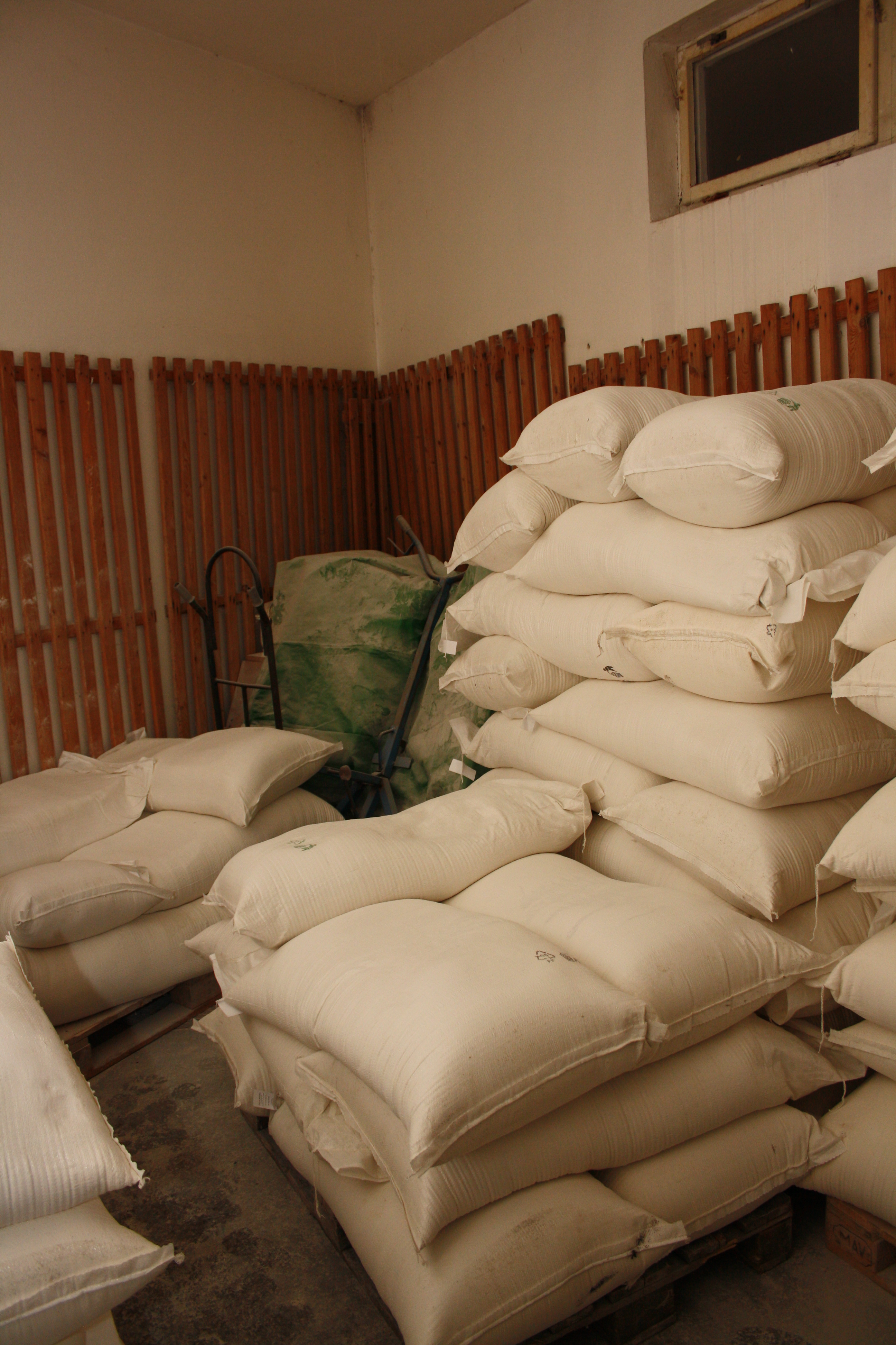 Stored flour in Czech Republic This photograph was taken with a DSLR from WMCZ's Camera grant. This picture was taken and/or got within the scope of the 'Acquiring scientific and specialized pictures' grant.